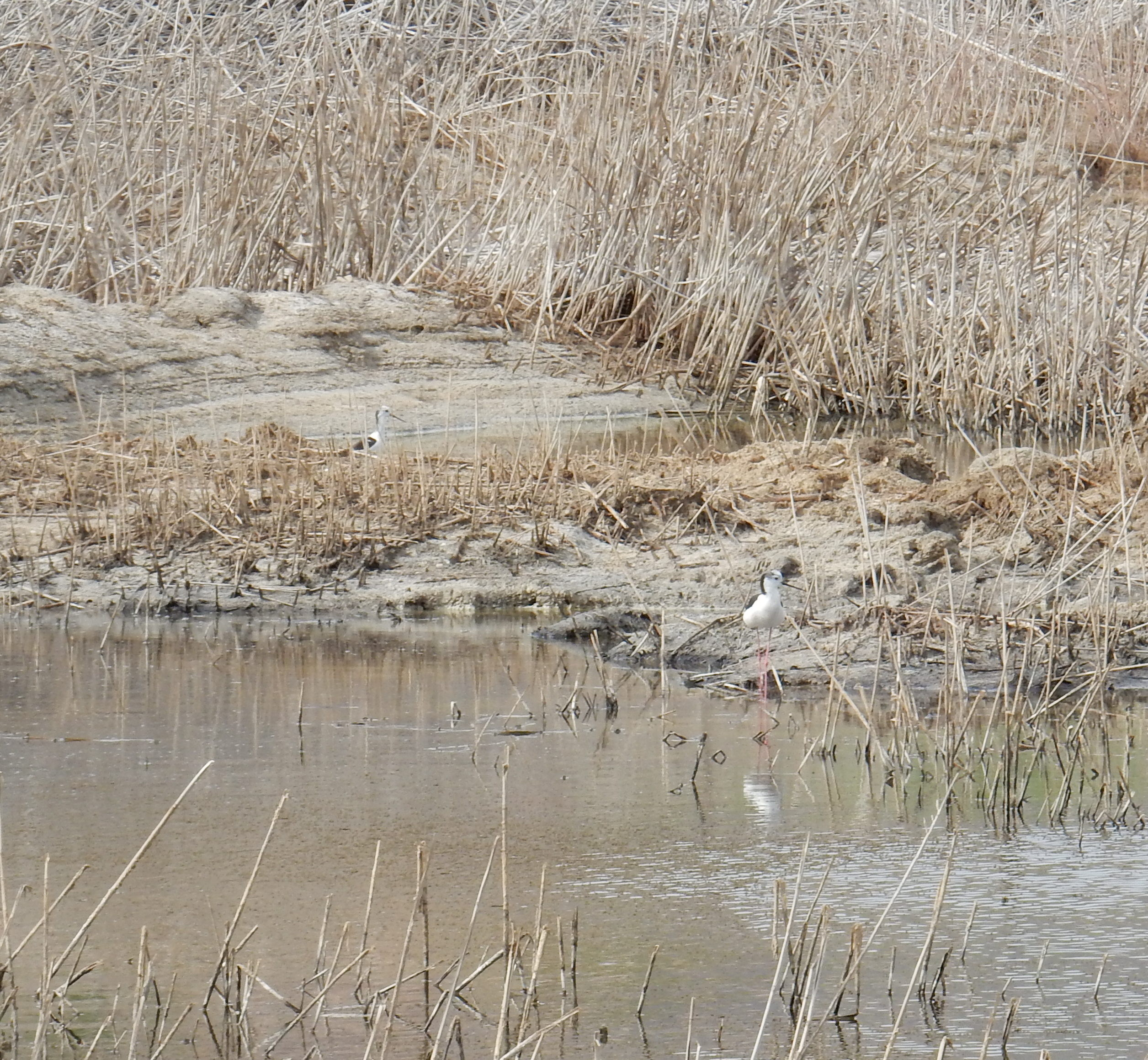 A pair of black-winged stilts, Himantopus himantopus, in the Einot Kane and Samar nature reserve by the Dead Sea